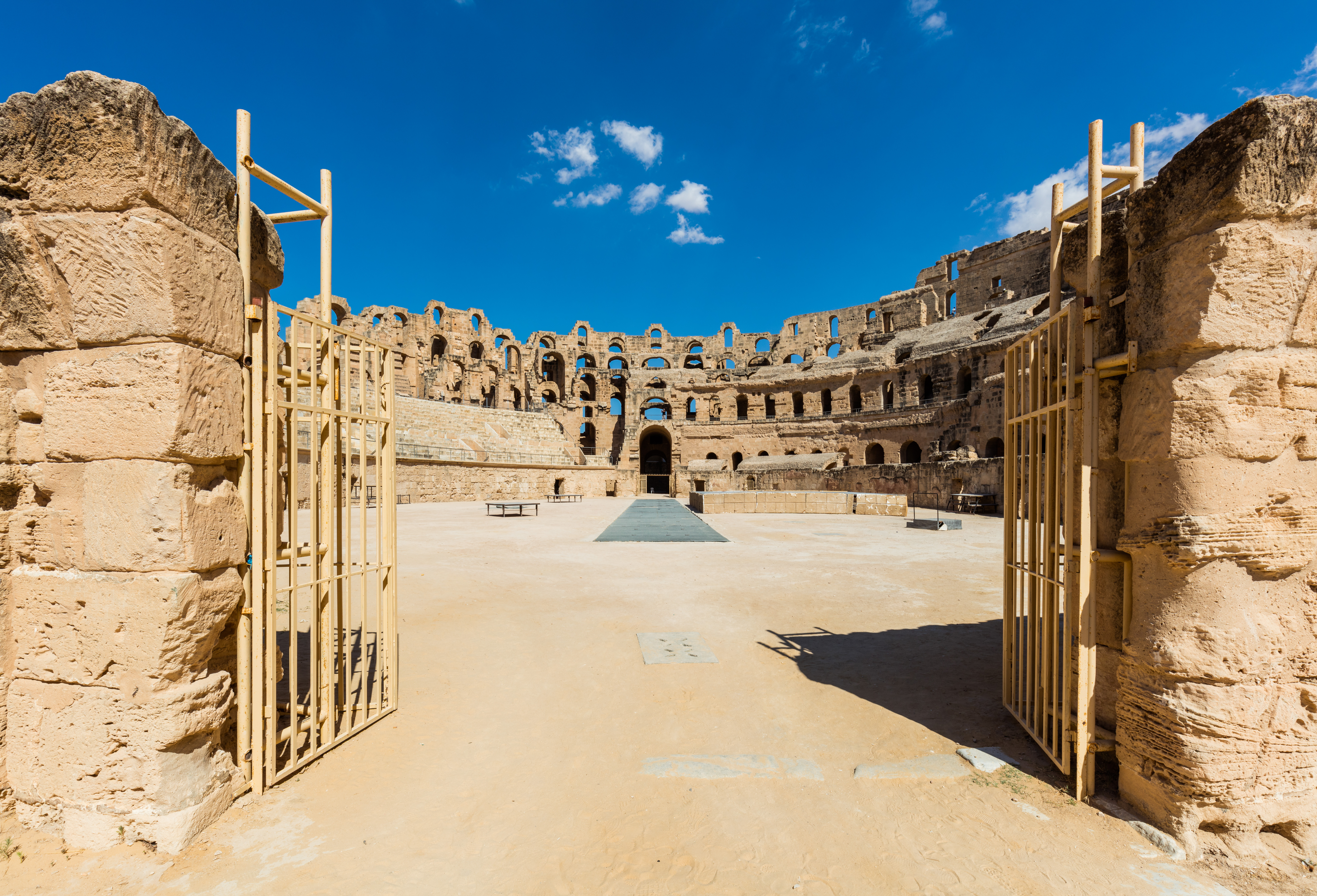 Amphitheatre of El Jem, Tunisia